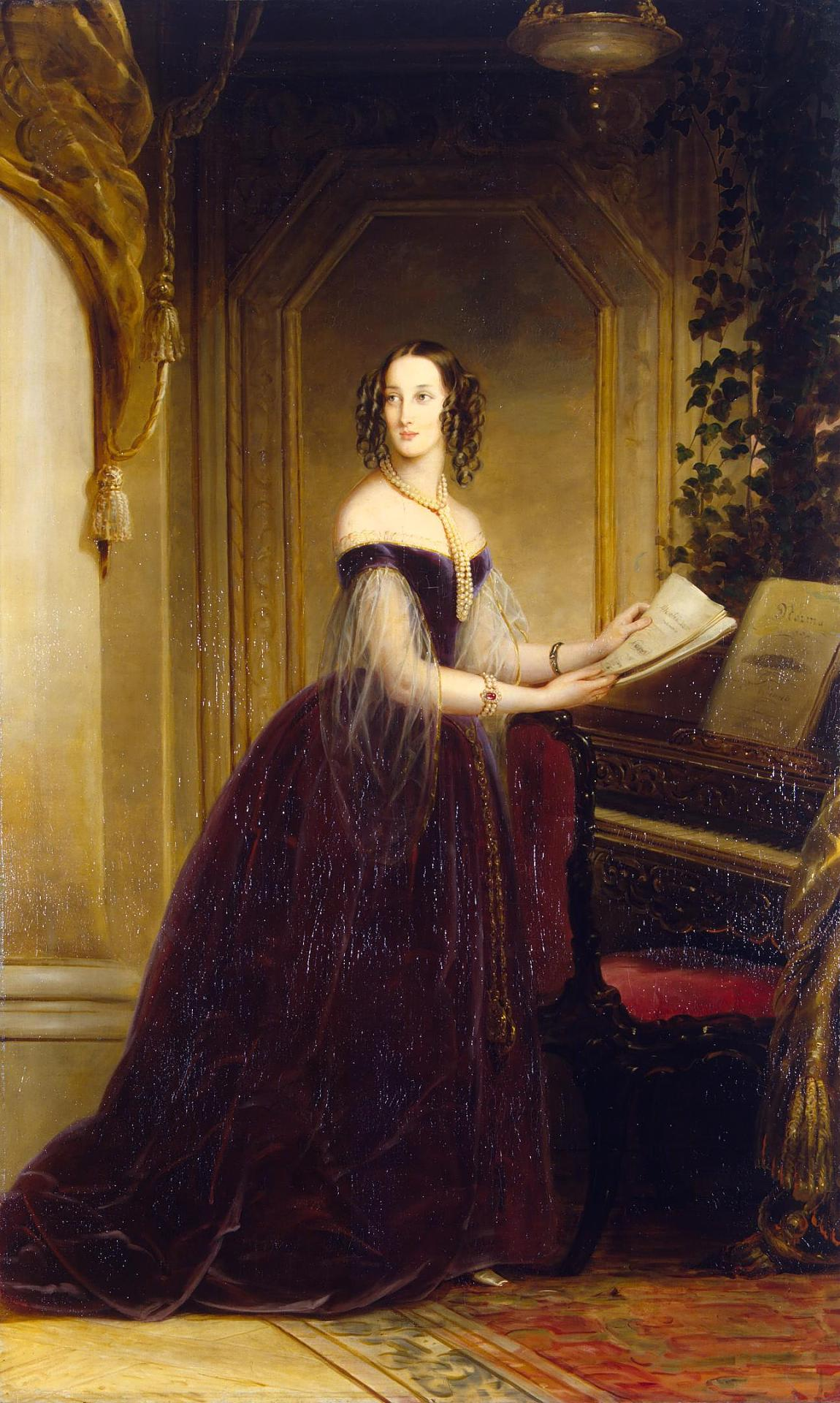 Grand Duchess Maria Nicolaevna Duchess of Leuchtenberg(1819-1876)